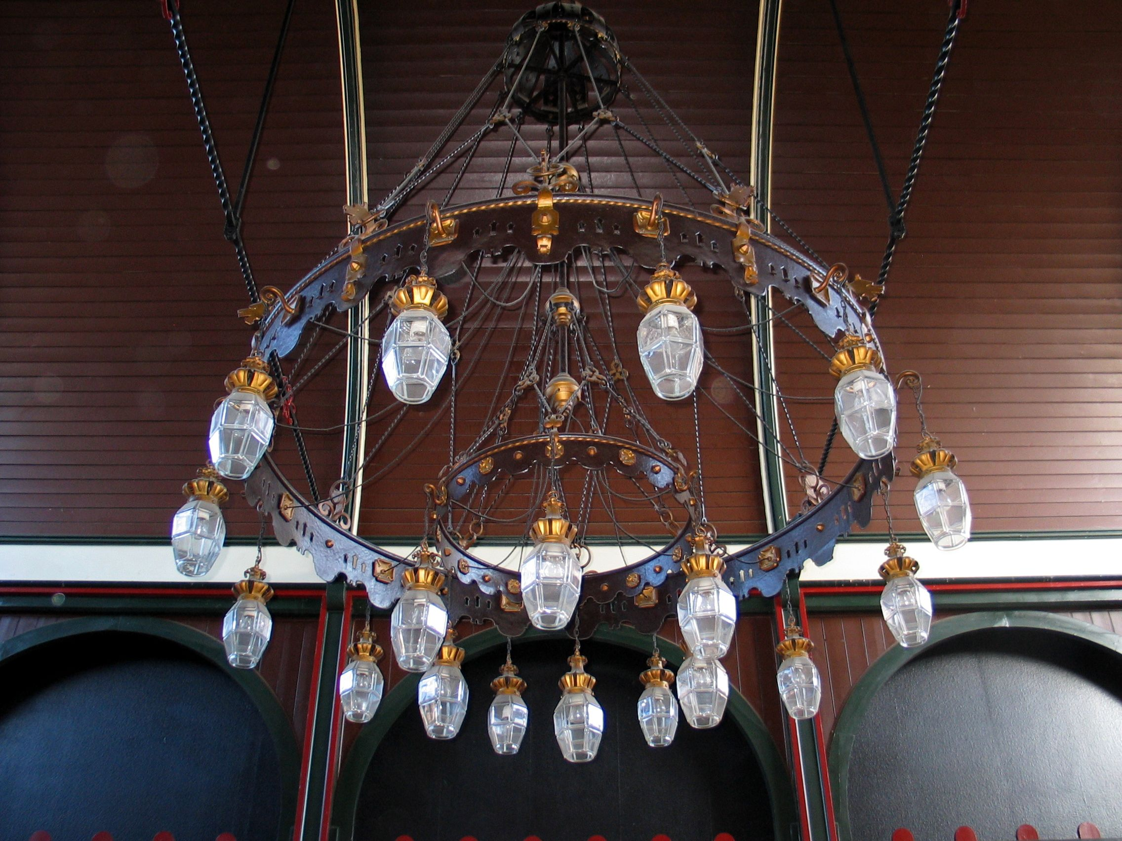 Interior of Østerport Railroad Station (Copenhagen, Denmark). Ceiling lights